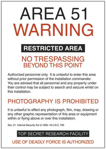 For the alien we all have all have inside. And hope you´ve read clearly, buddy, "Photography is prohibited here", k?!